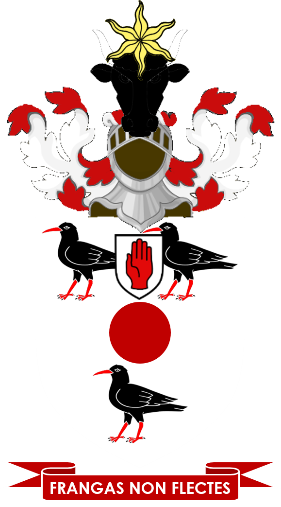 The armorial achievement of the Kimber baronets of Lansdowne Lodge